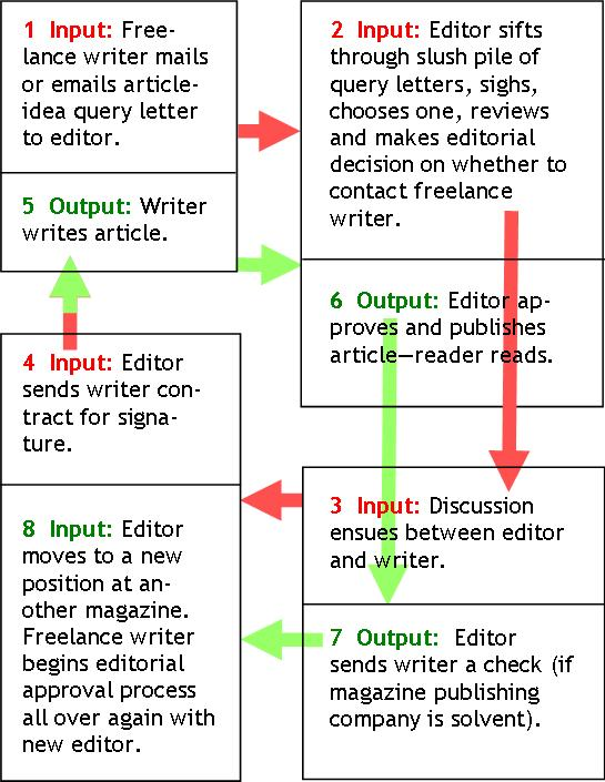 Traditional freelance writer work system.